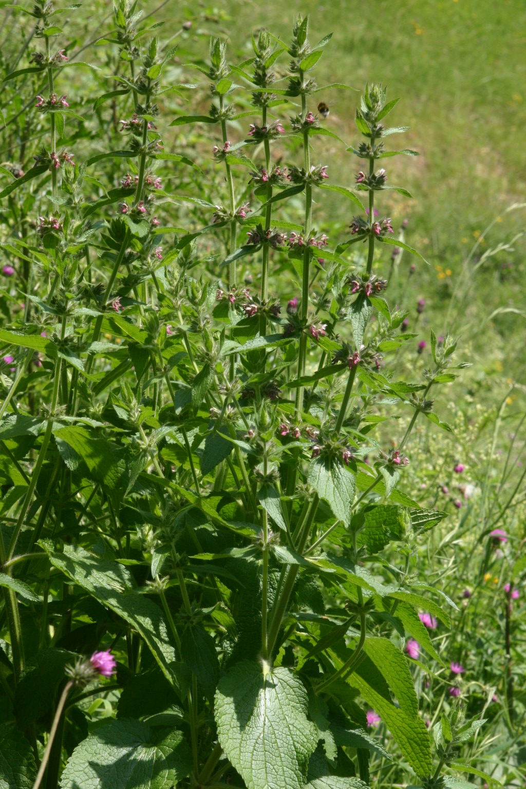 Stachys alpina